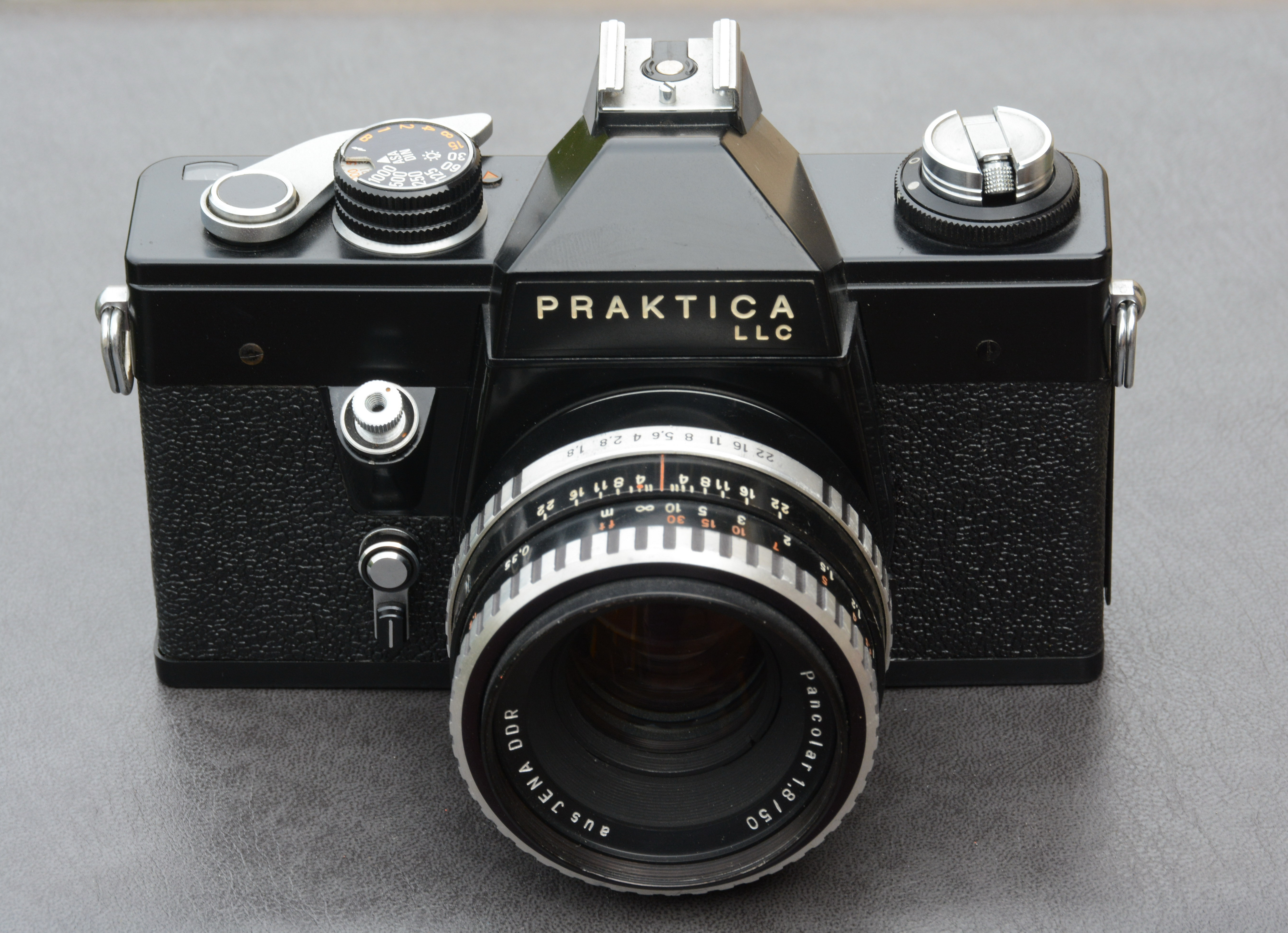 Praktica LLC SLR black with Pancolar 1,8/50 lens; 1969